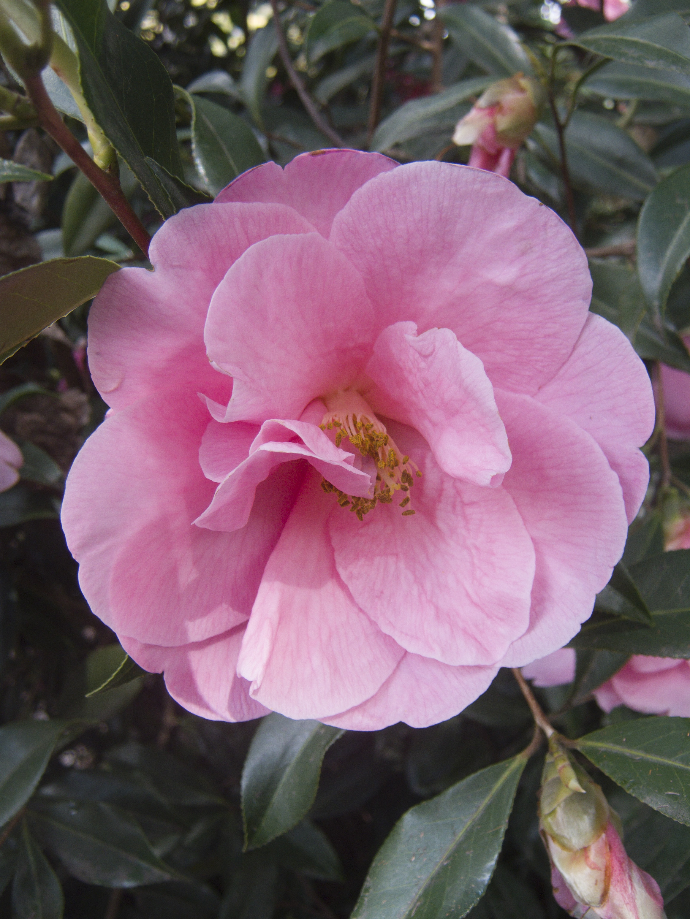 Camellia x williamsi 'Sayonara' bred by E.G. Waterhouse in Gordon NSW 1946; photographed at the National Rhododendron Garden, Olinda, Victoria